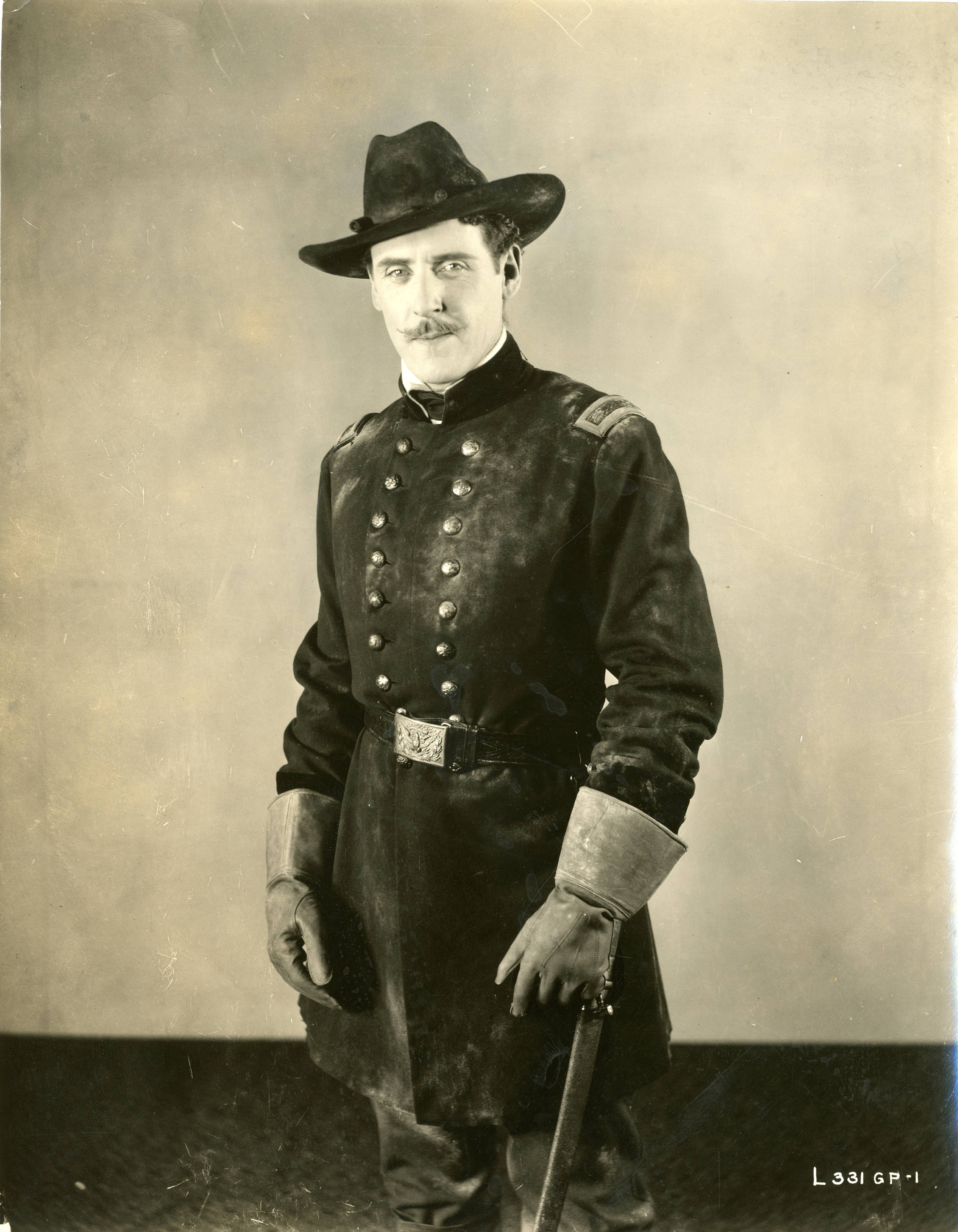 In silent films Robert Cain, from the American drama film Held by the Enemy (1920). Subjects: actors